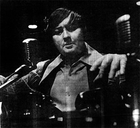 Legendary radio personality Jim Connors in Studio - Promo shoot